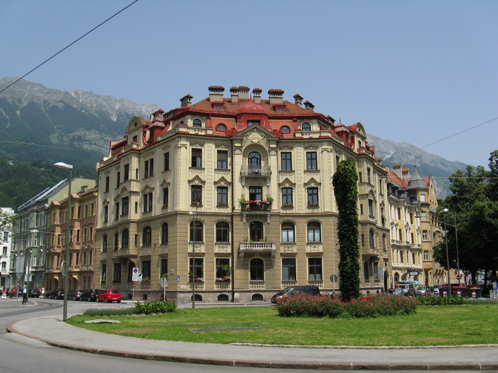 Innsbruck, Saggen quarter, typical "Gründerzeit" house